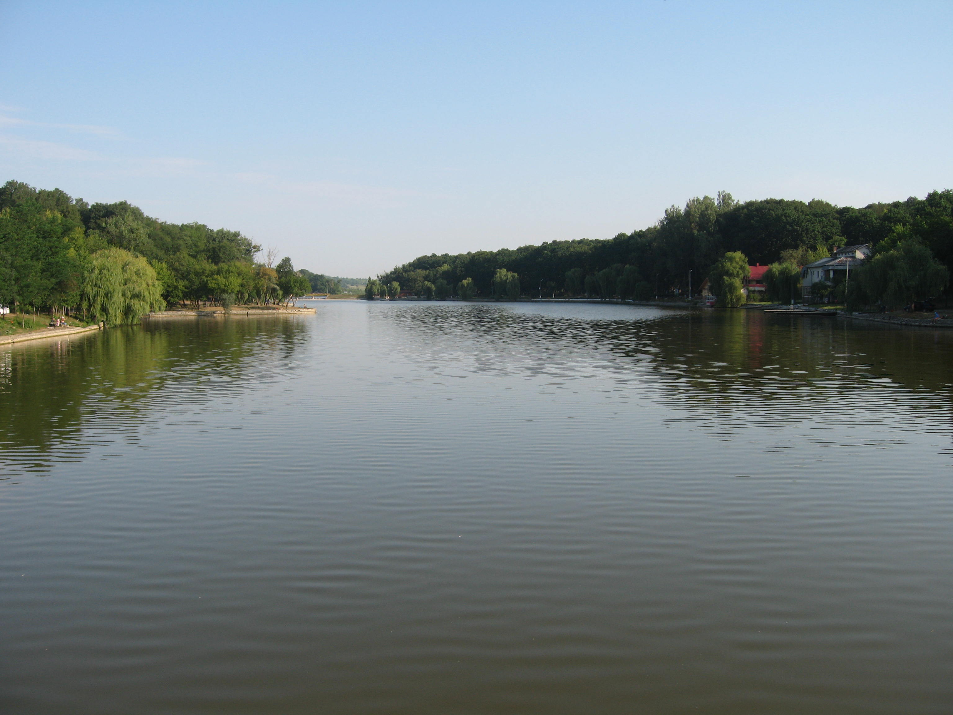 Barajul Ciric II